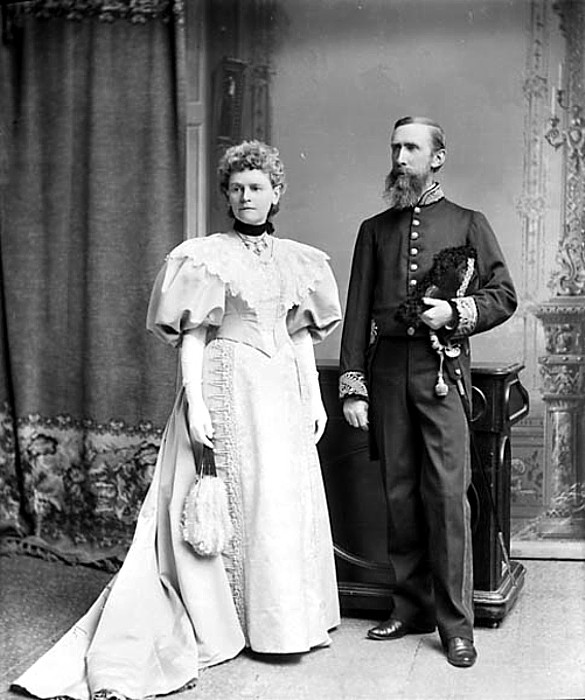 George Eulas Foster and his wife Adeline Davis